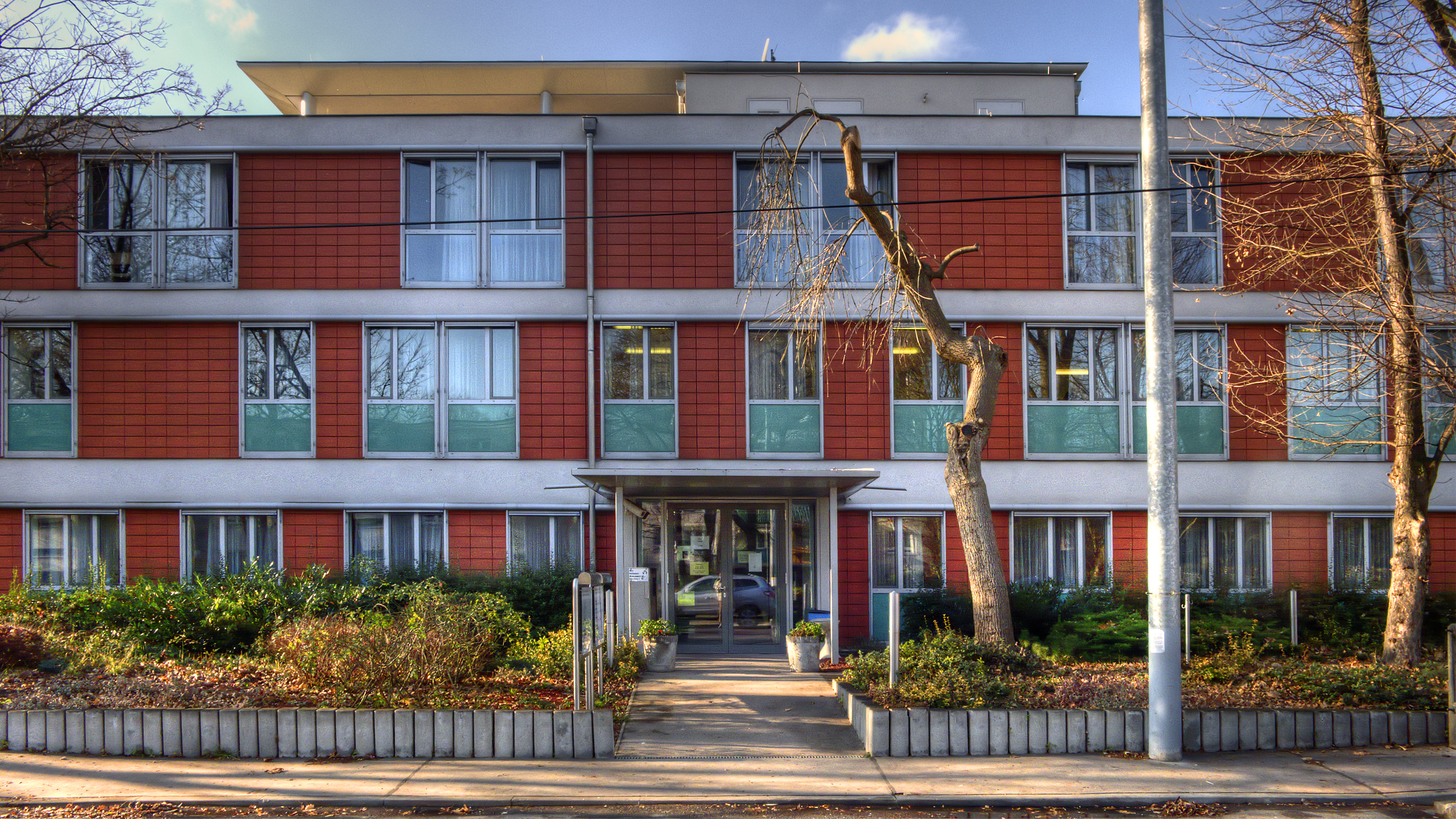 Anton-Proksch-Institut Kalksburg in Vienna Liesing